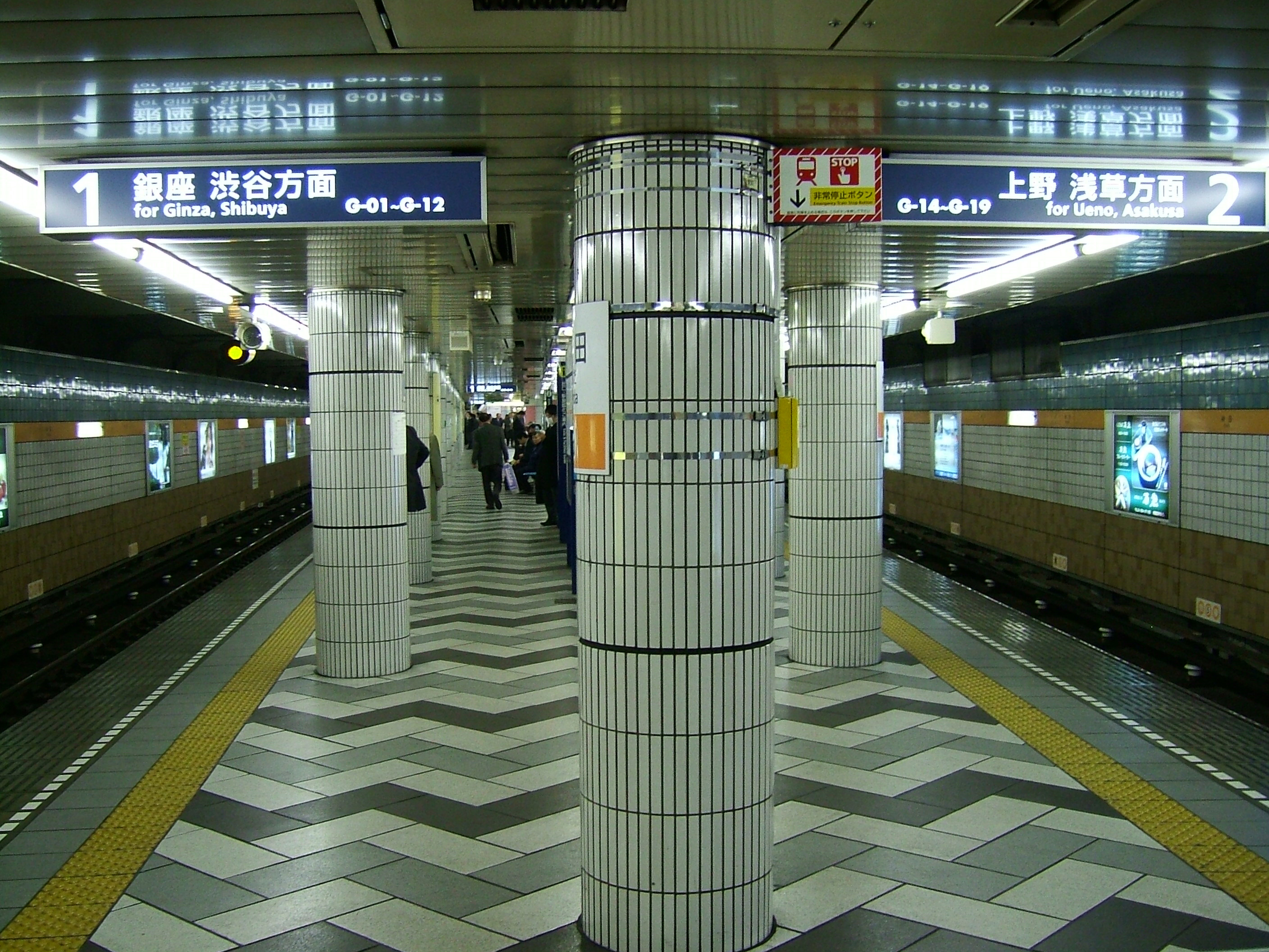 The platform at Kanda Station, Tokyo Metro Ginza Line